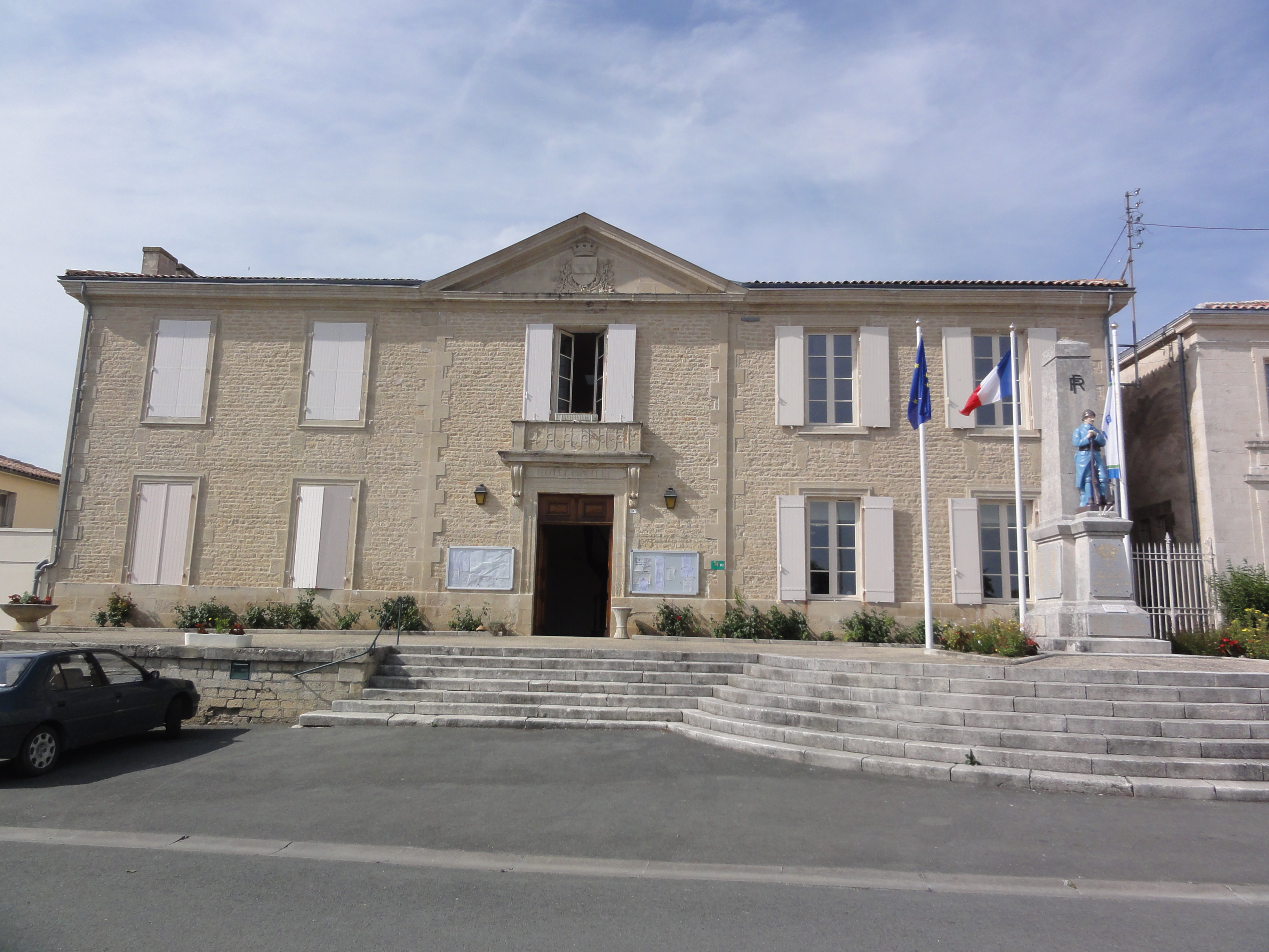 Aulnay-de-Saintonge, mairie